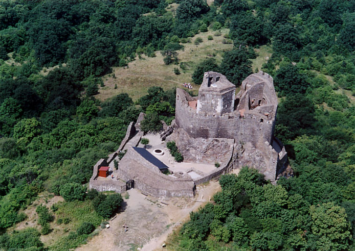 Castle - Hollókő - Hungary - Europe